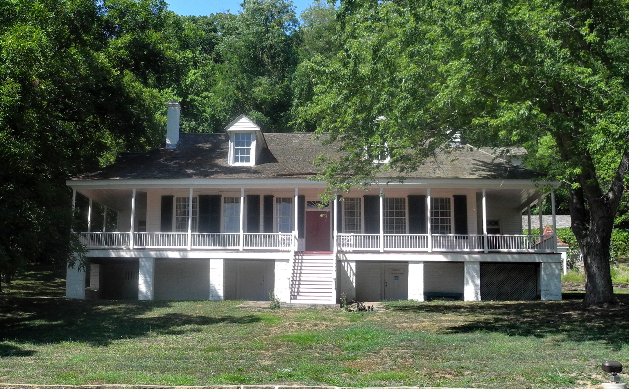 The historic home of Pierre Menard on the banks of the Mississippi River in the state of Illinois.